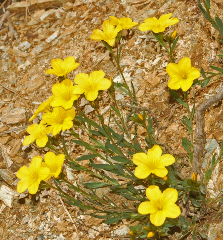 Linum campanulatum - Piani di Praglia, Genova, Italy